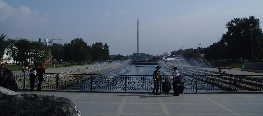 Sight on the part of the Isetriver where it has been canalled. In the distance the unfinished Tv-tower of Yekaterinburg. One of the most touristic parts of the city